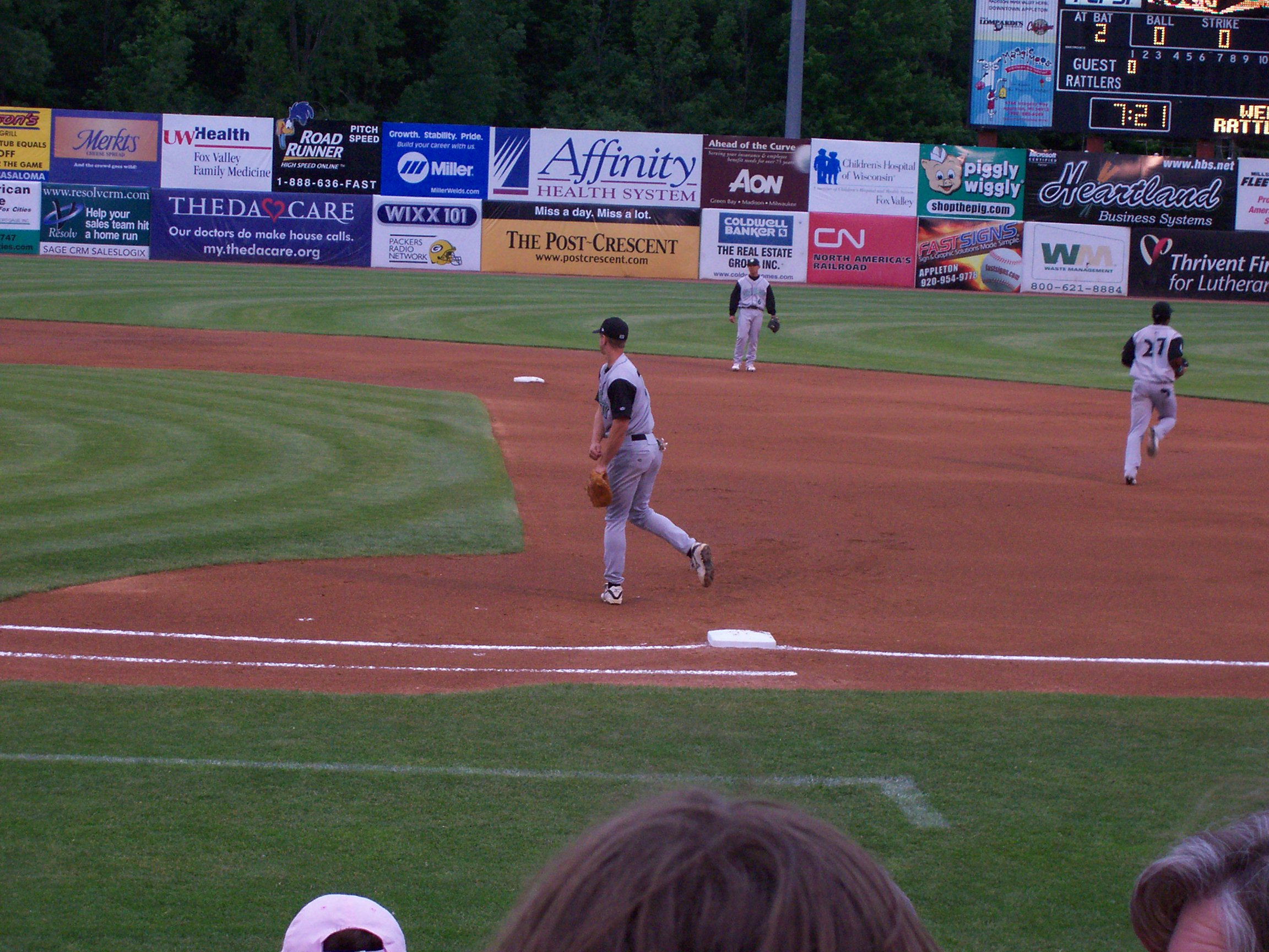 An image that I took myself of the Single A - Midwest League - Kane County Cougars, taken at the June 9, 2006 game against the Wisconsin TimberRattlers at Fox Cities Stadium.